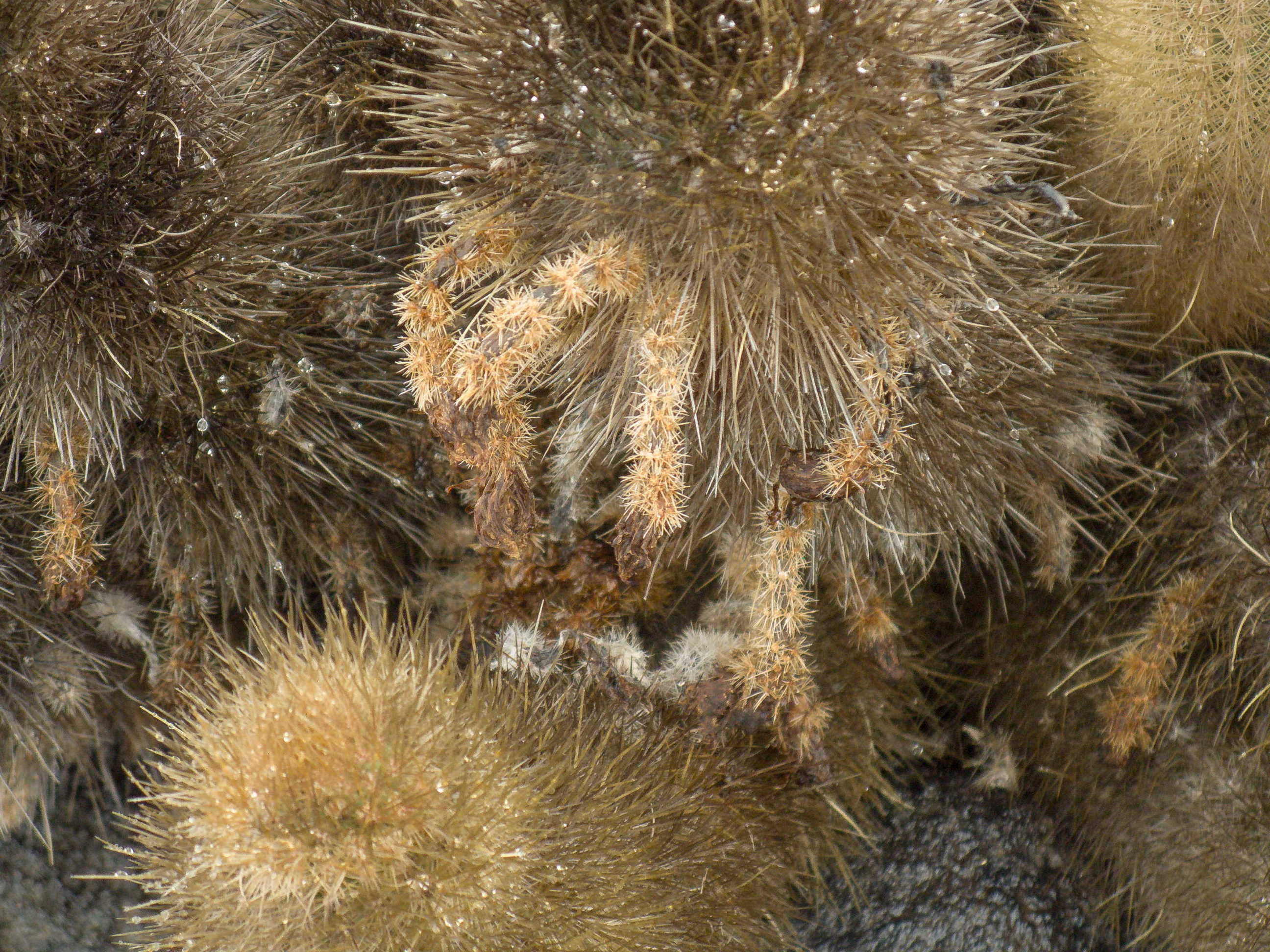 Brachycereus nesioticus (Lava Cactus) with remains of flowers, on lava, Sullivan Bay, Santiago Island, Galapágos